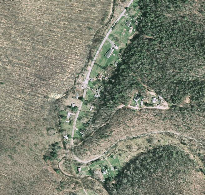 Aerial view of Hardscrabble, Virginia as seen in the National Map Viewer.